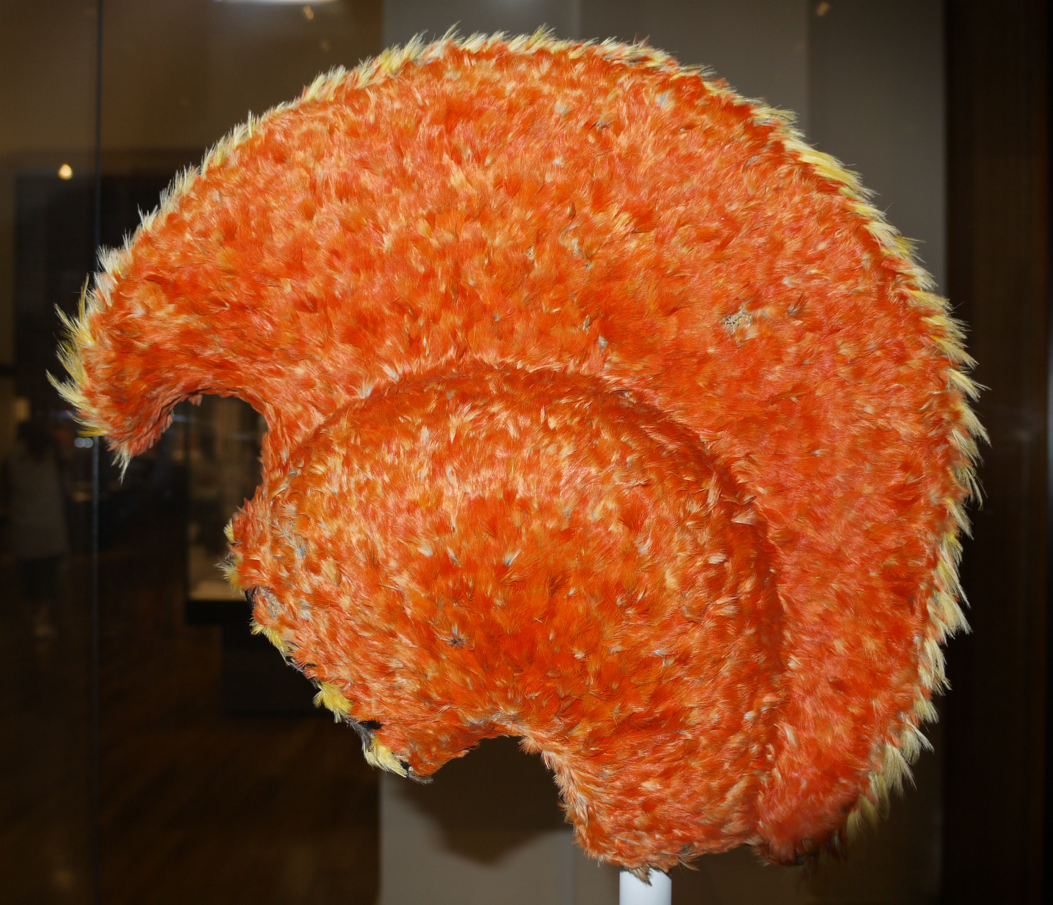 Photo of a Hawaiian feather helmet (mahiole) at the british museum